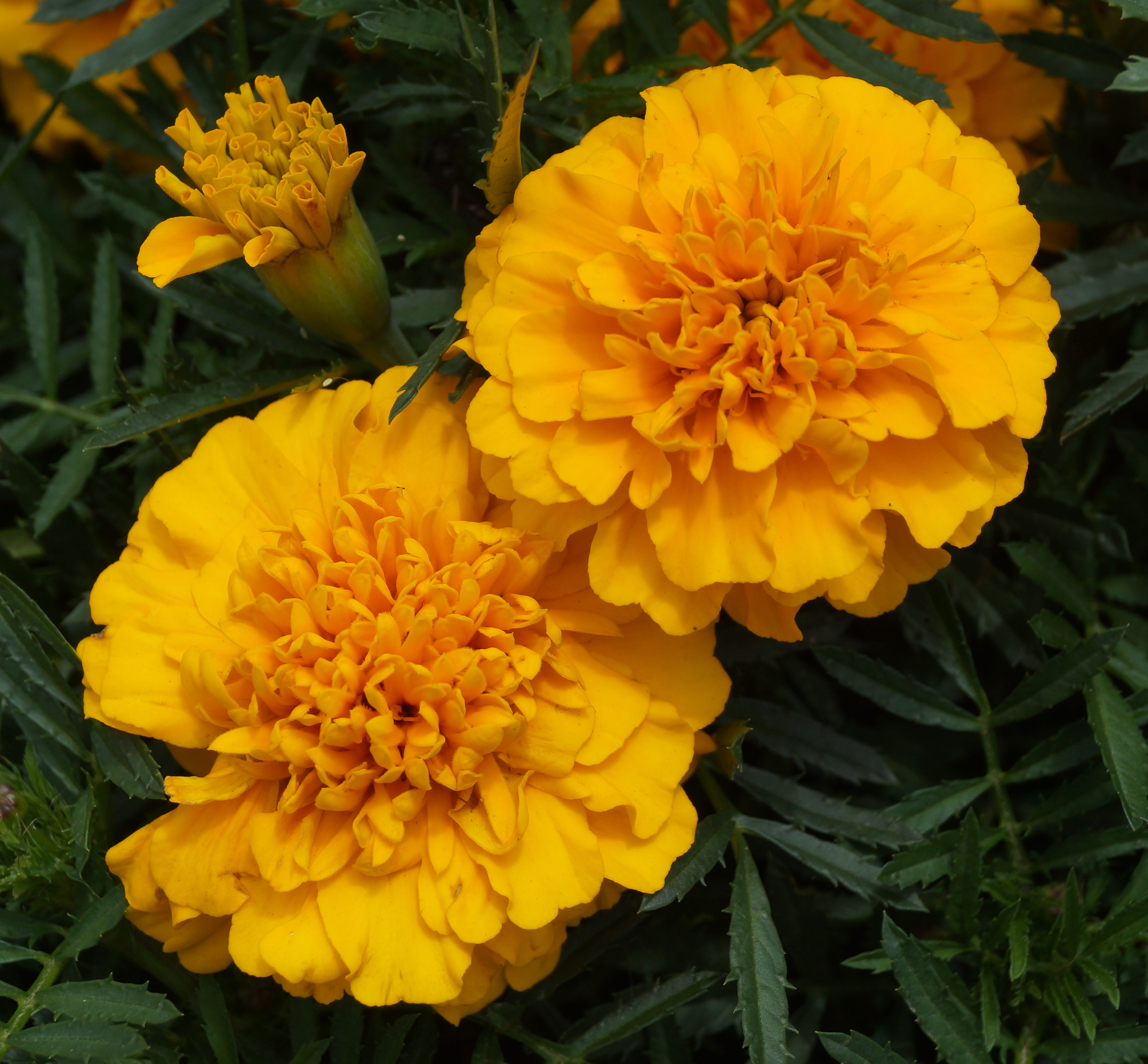 Tagetes erecta